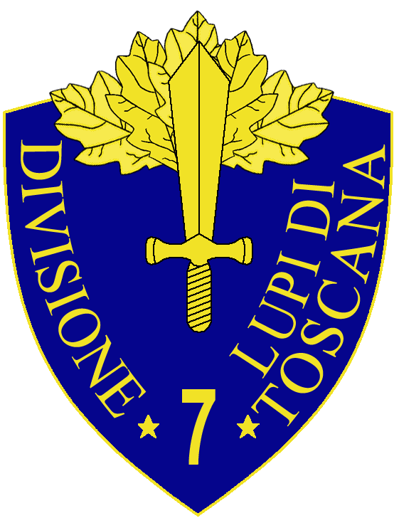 7a Divisione Fanteria Lupi di Toscana insignia, Regio Esercito, Italy, WWII